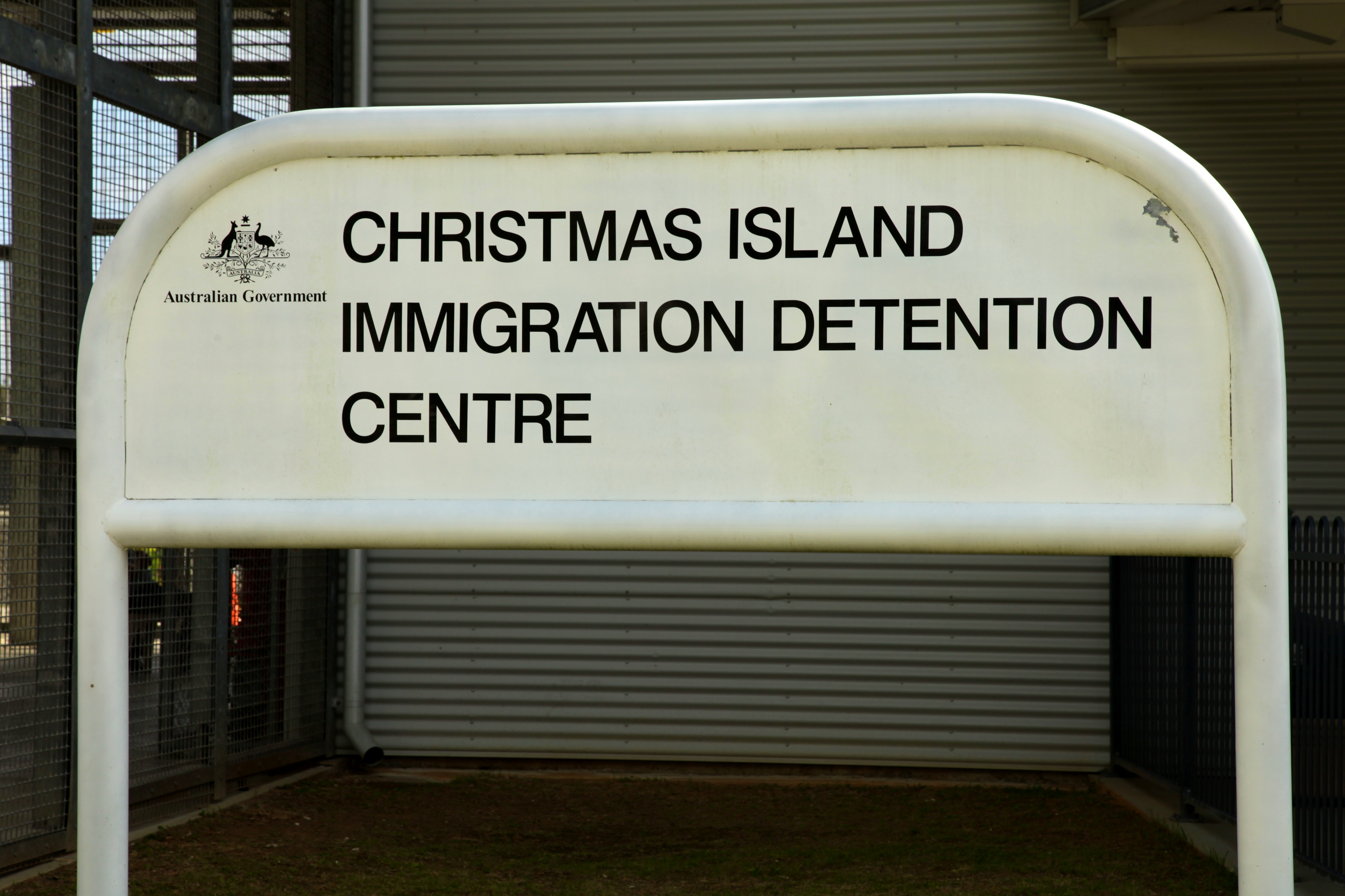 Christmas Island Immigration Detention Centre.